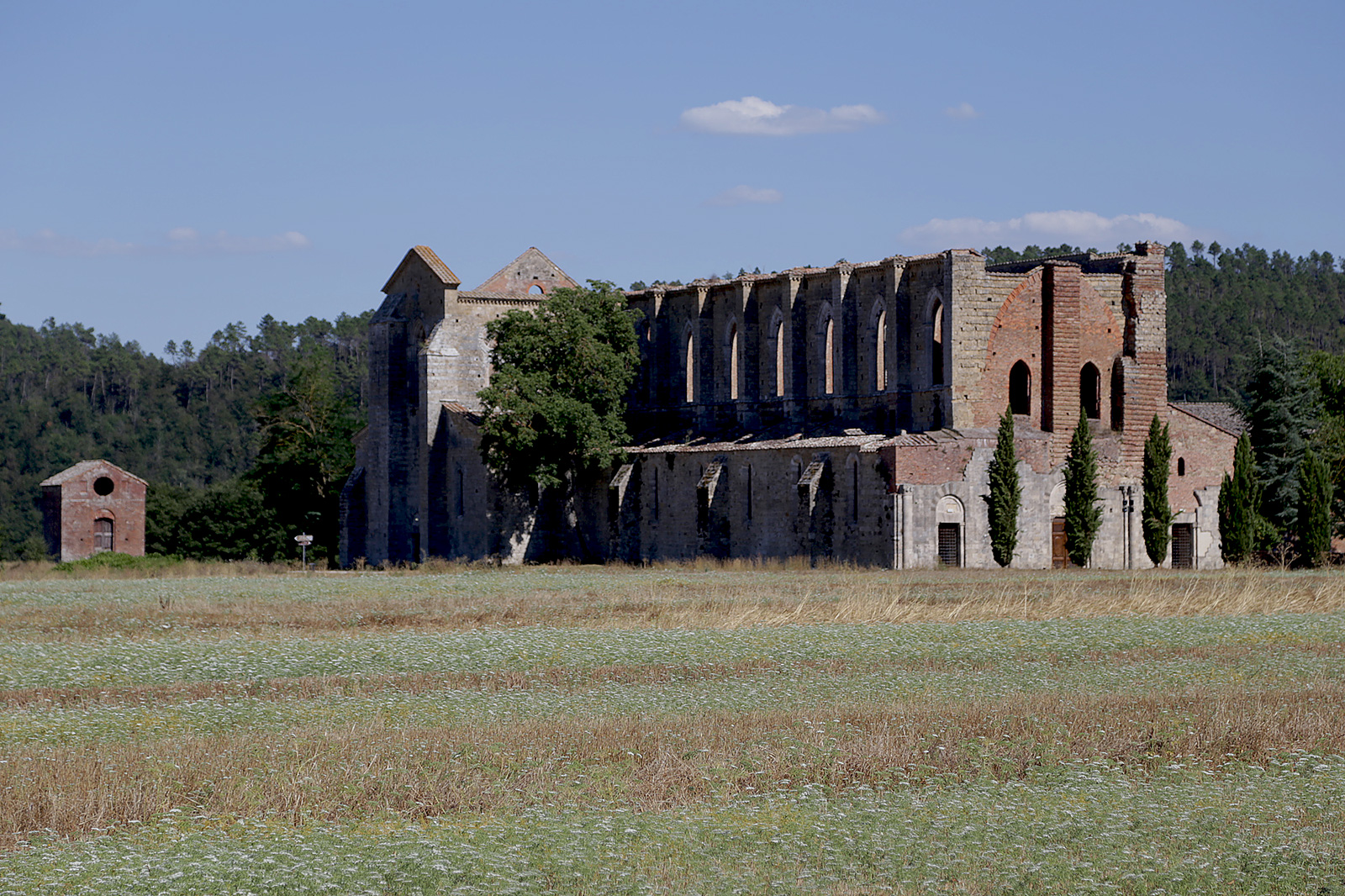 San Galgano abbey (Siena), Italy.